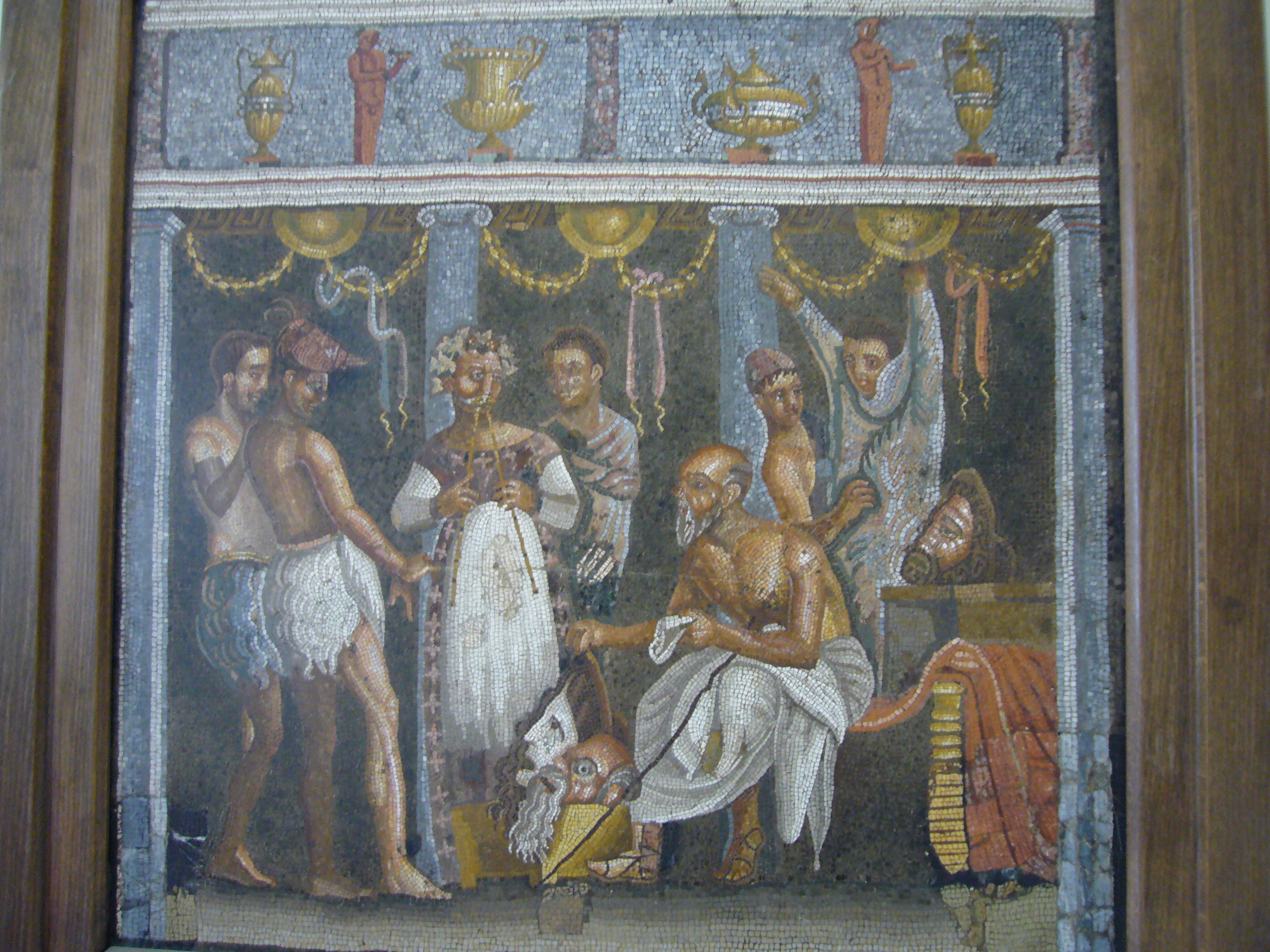 A poet giving directions from a theatrical scene. Roman mosaic from the tablinum Casa del Poeta tragico (VI 8, 3-5) in Pompeii. Museo Archeologico Nazionale (Naples).